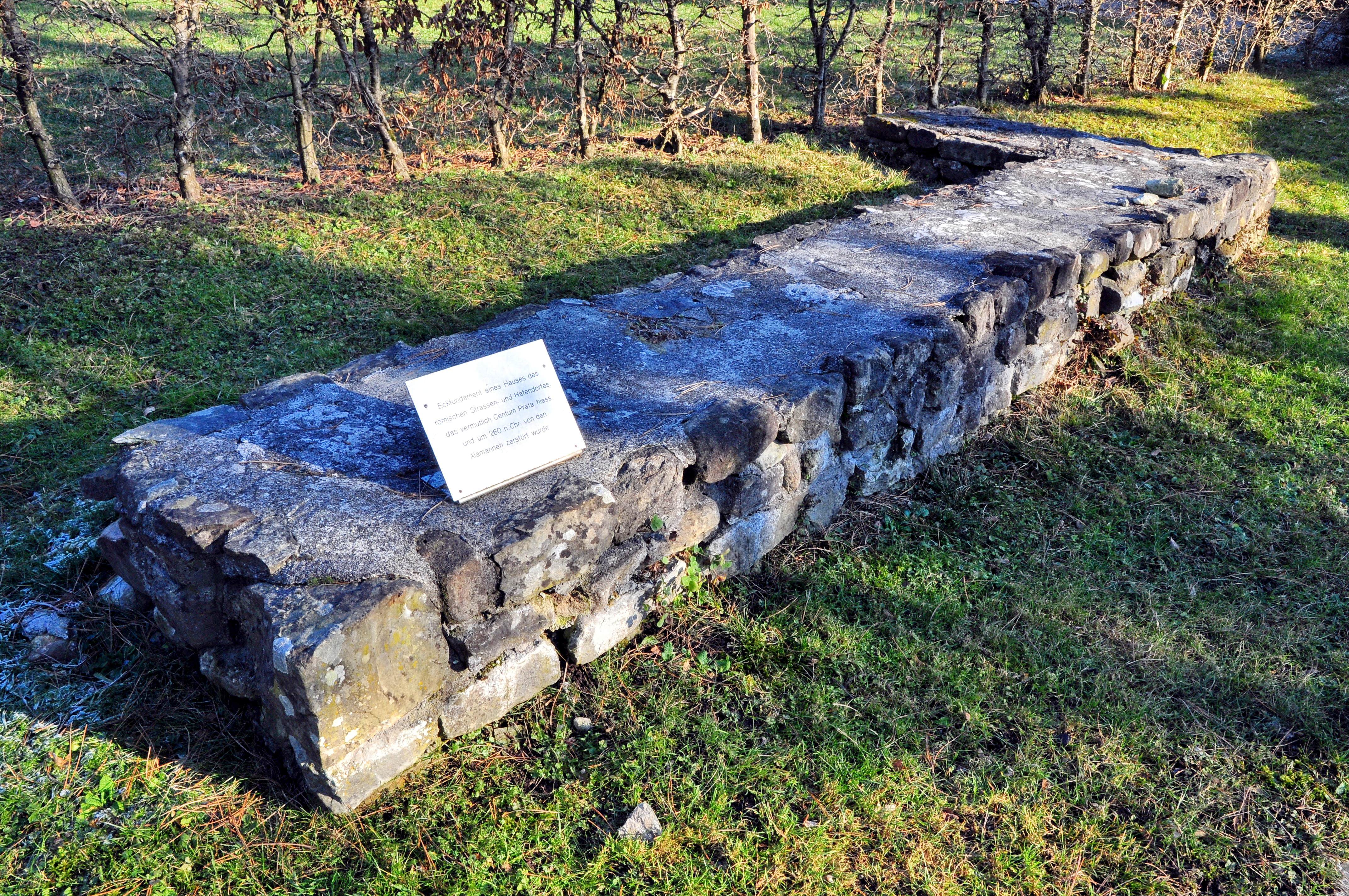 3rd century AD Roman walls of the former Roman vicus Centum Prata at Kapelle St. Ursula in Kempraten respectively Rapperswil (Switzerland)